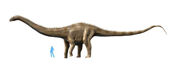 Life restoration of Supersaurus vivianae